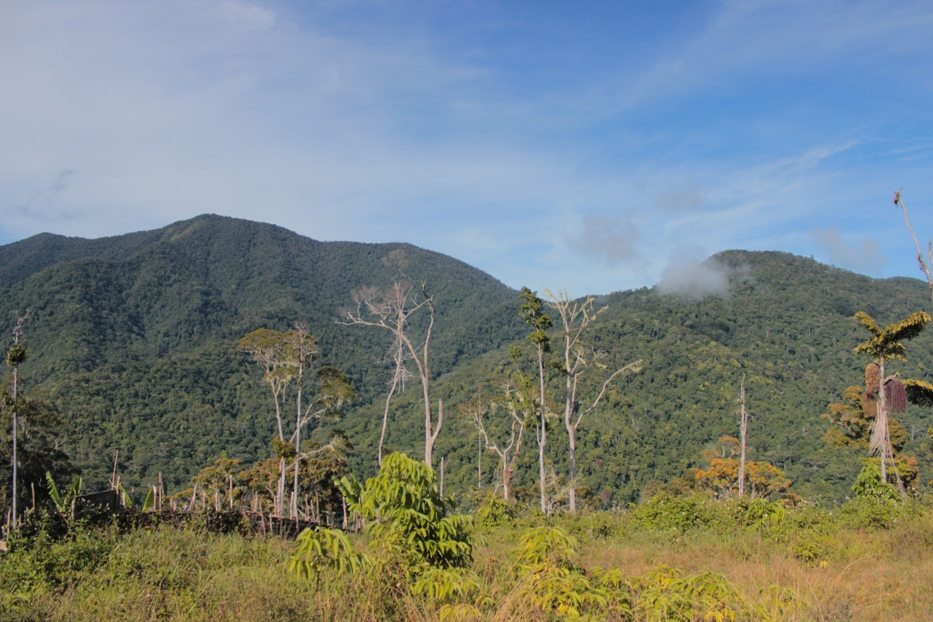 The Arfak Mountain Range, located throughout the eastern part of West Papua.